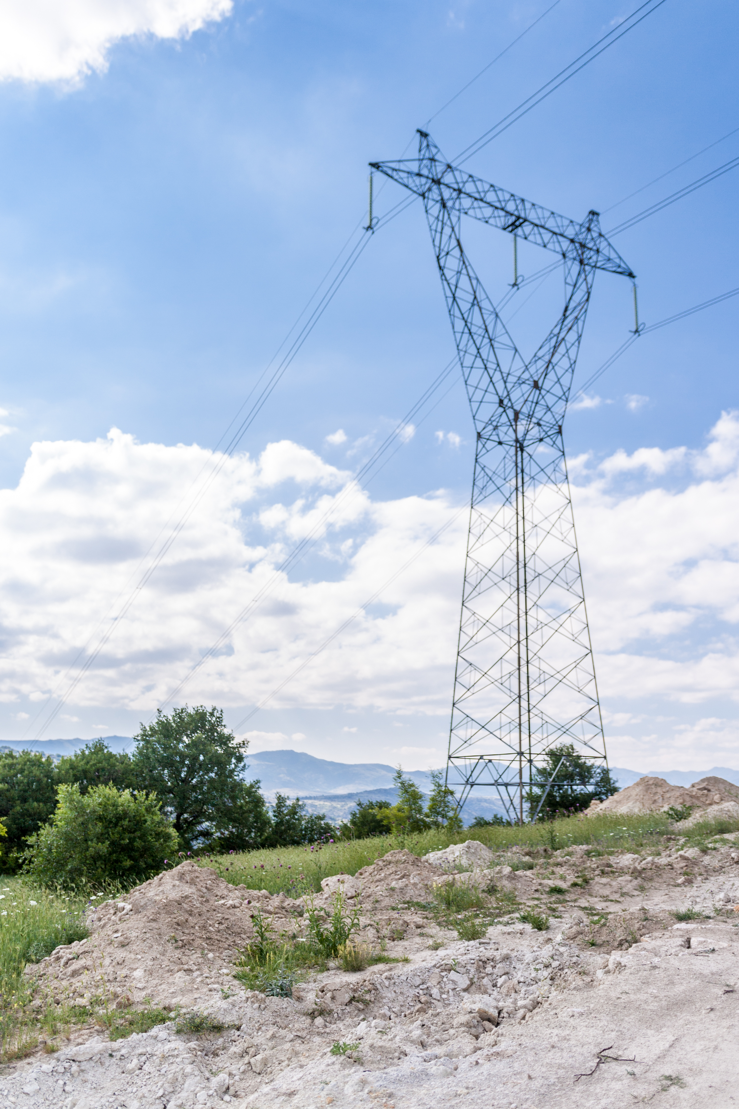 Transmission line in Mariovo, Macedonia